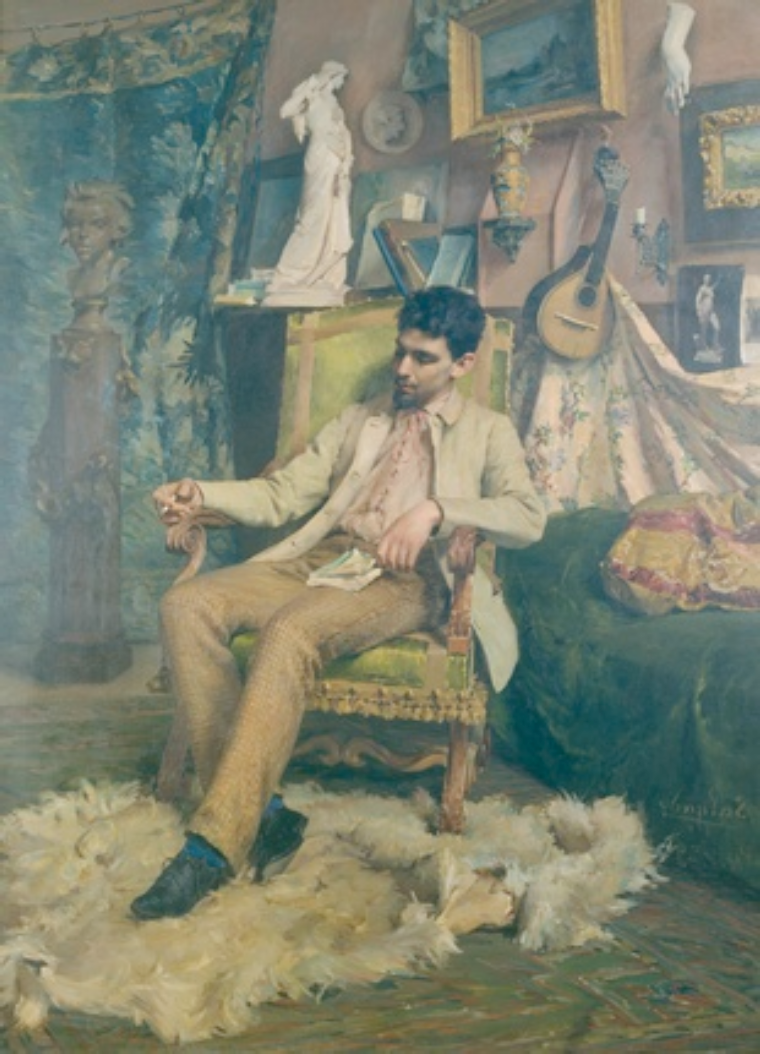 Portrait of scultptor Teixeira Lopes, in his workshop in Paris, Rue Denfert Rocheraux (1899), by Veloso Salgado